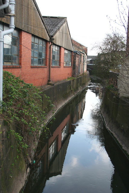 Fowlea Brook Fowlea Brook flows beside warehouses in this rather run-down area of Stoke. View from Liverpool Road near the Queensway roundabout